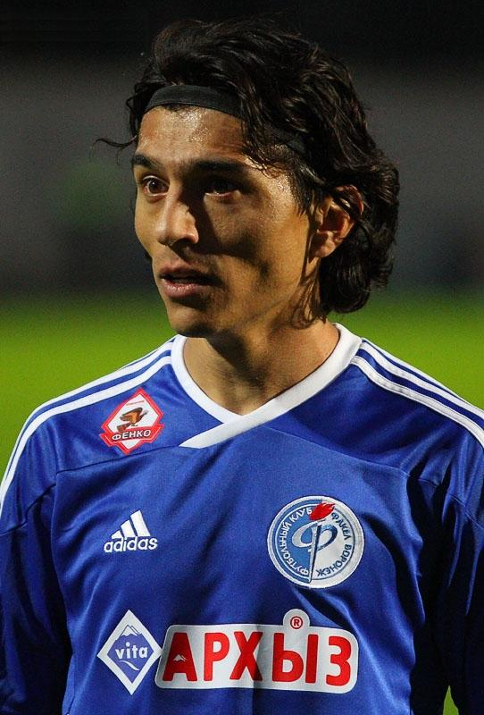 Andrei Akopyants playing for FC Fakel Voronezh.